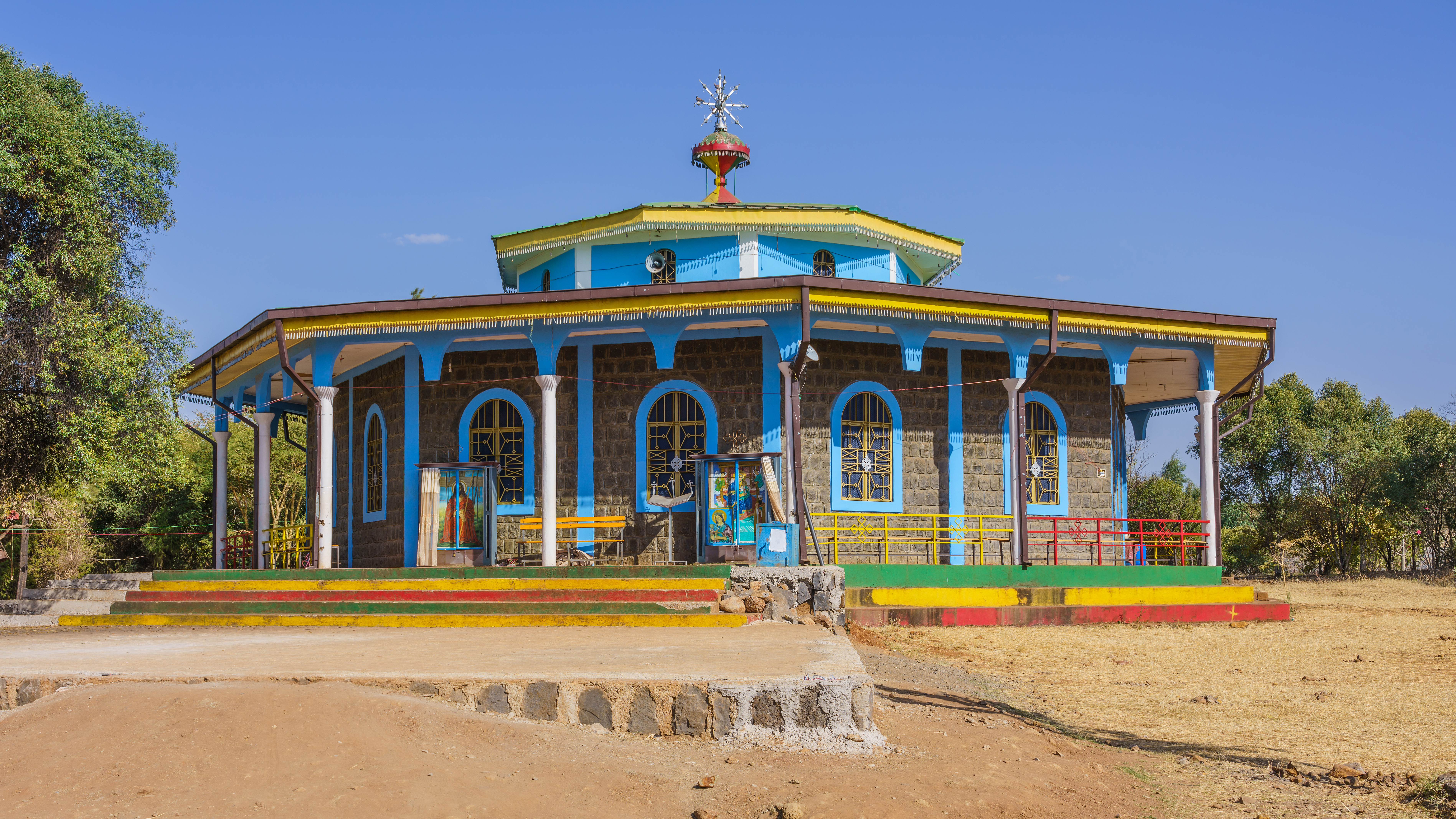 Bezawit St. Mary Church in Bahir Dar, Ethiopia